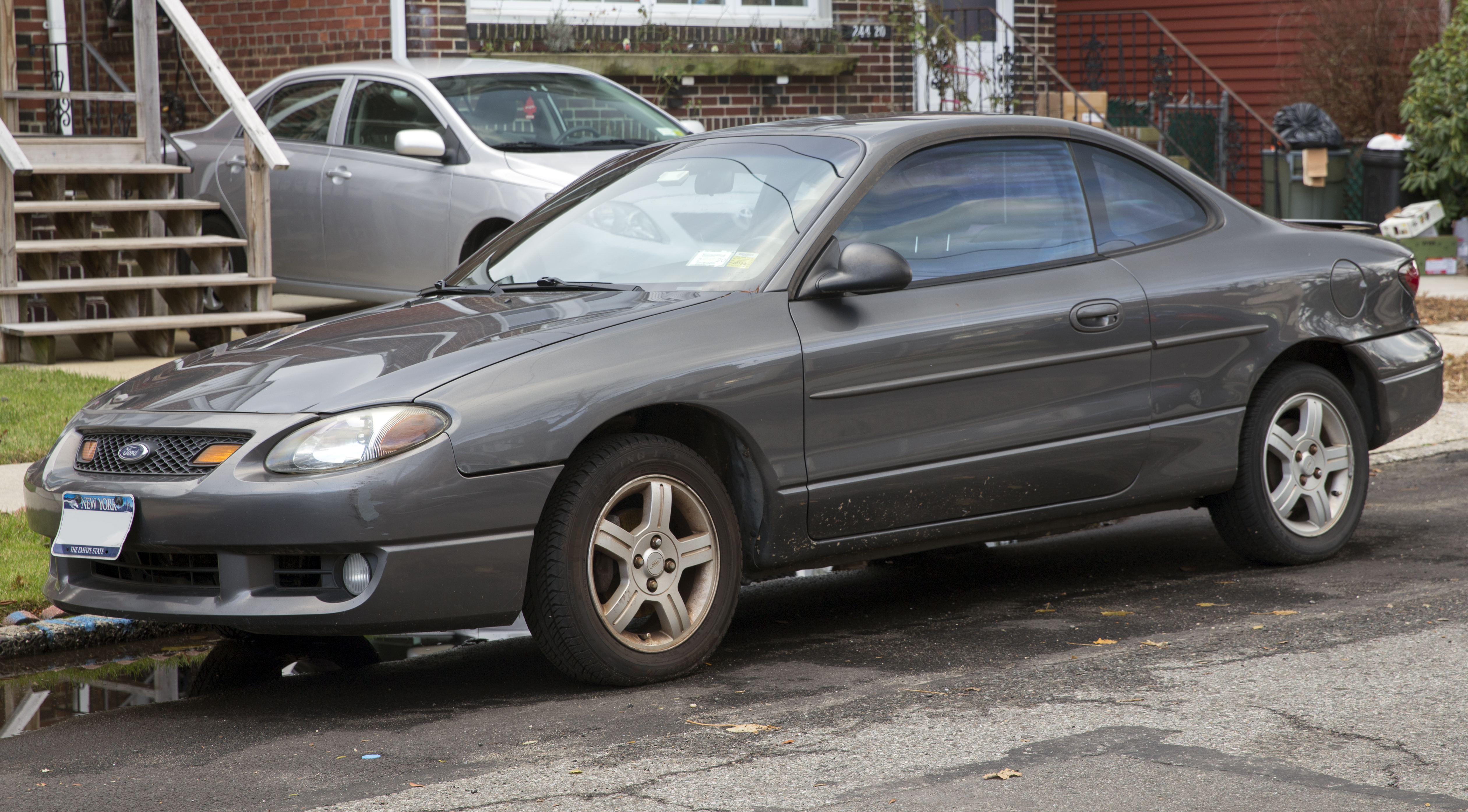 A 2003 Ford Escort ZX2 SE. Built in Hermosillo, Mexico.